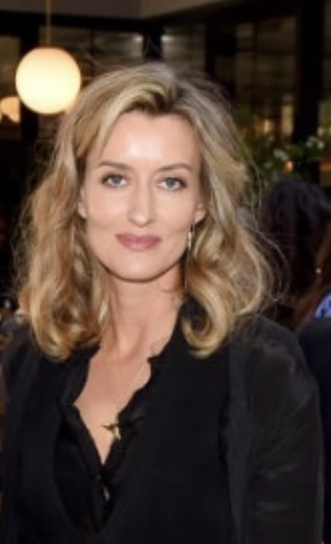 Natascha McElhone May 2018